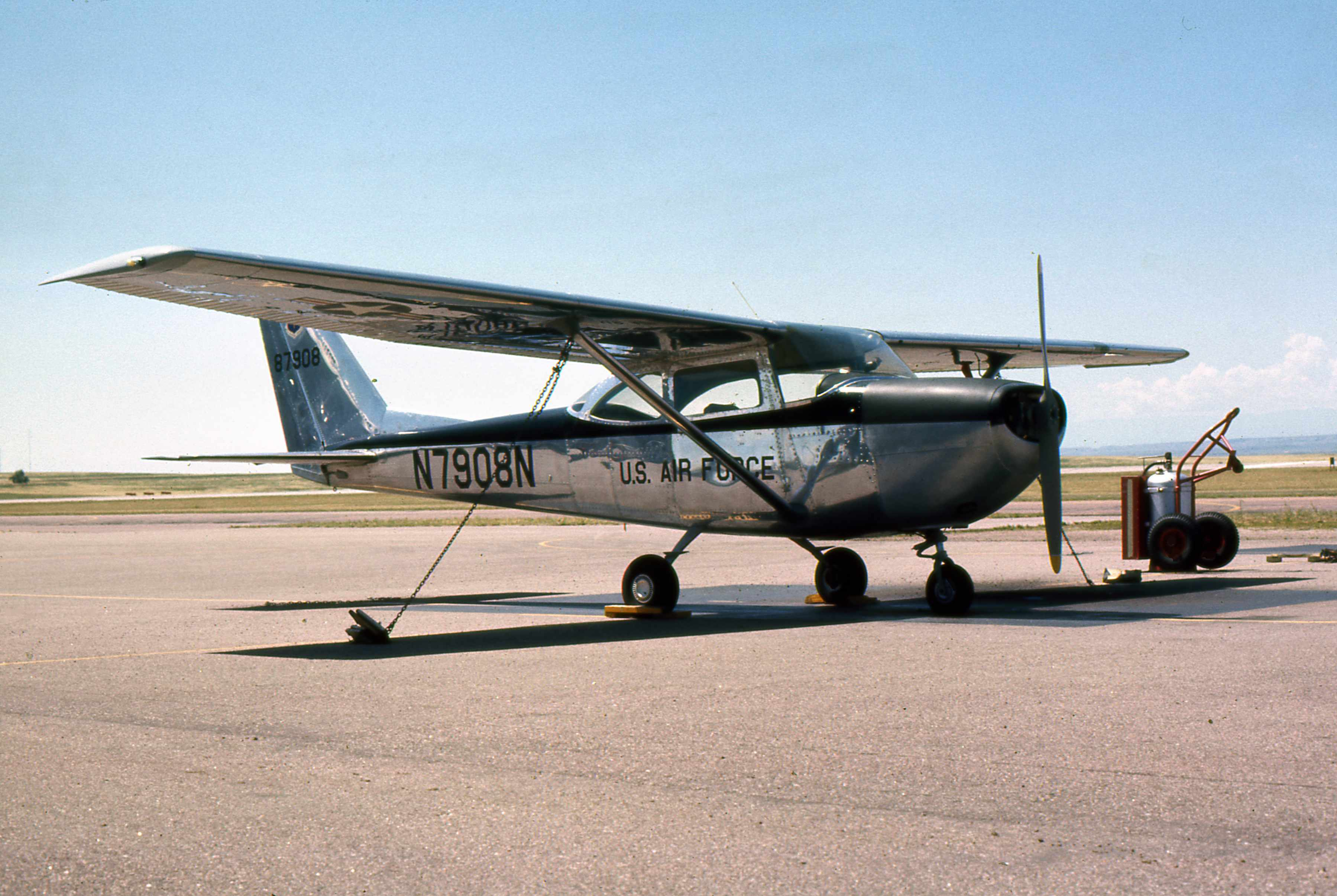 United States, Air Force Academy T-41 Mescalero N7908N used by the cadets of the Academy for training.